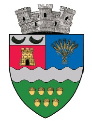 Coat of arms of Băbeni township, Vâlcea County, Romania